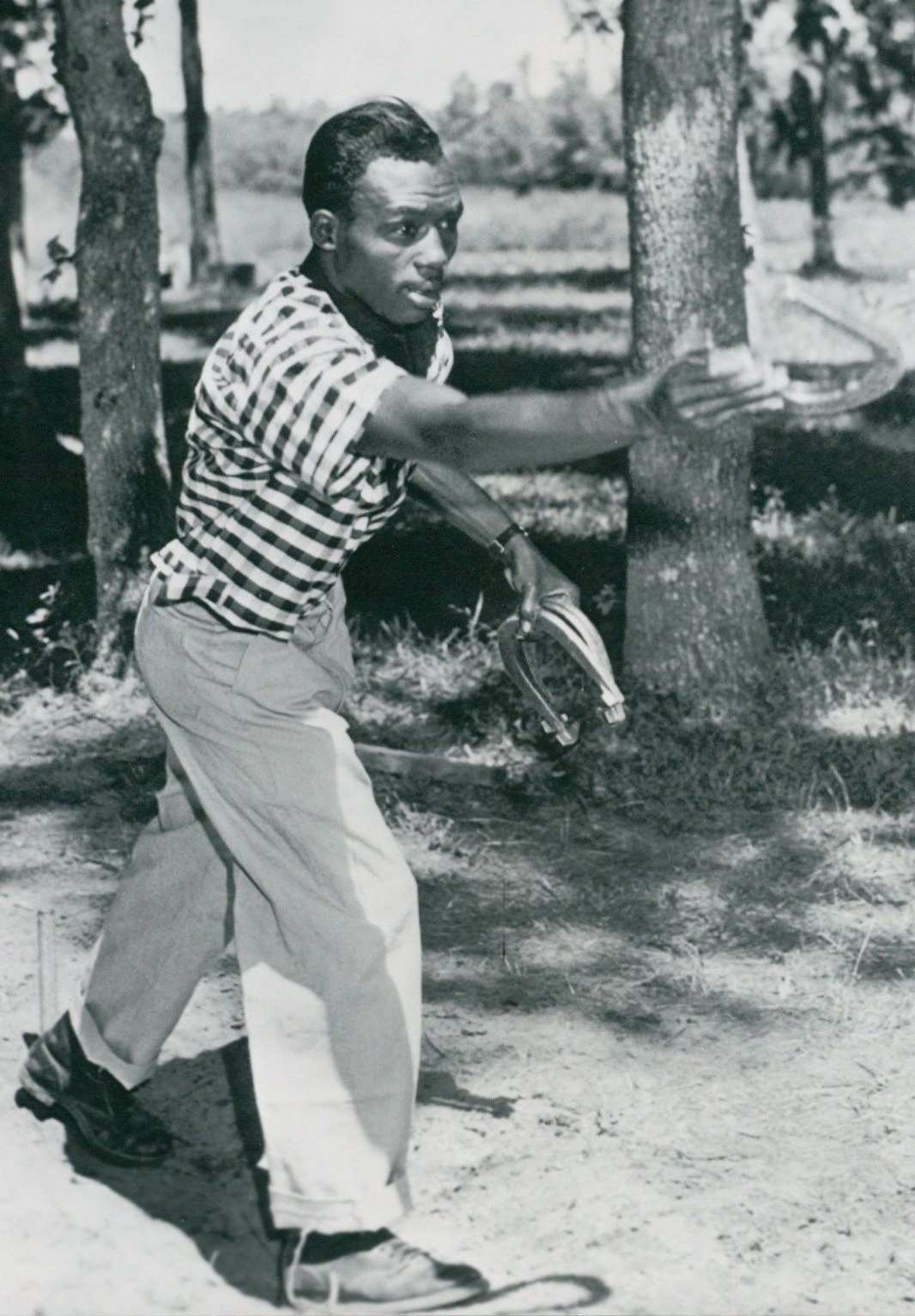 1958 AP Wire Photo playing horseshoes World Lightweight champ boxer Joe Brown